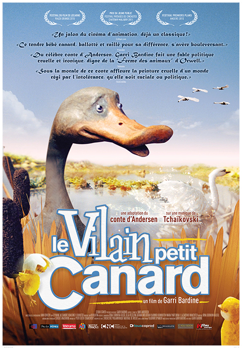 Poster of the movie Ugly Duckling (Q3228130)